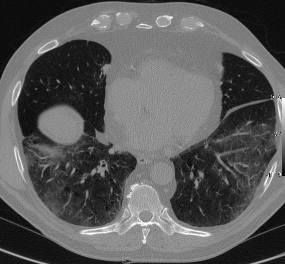 CT thorax with focal areas of increased density in ground glass in a patient with nonspecific interstitial pneumonia